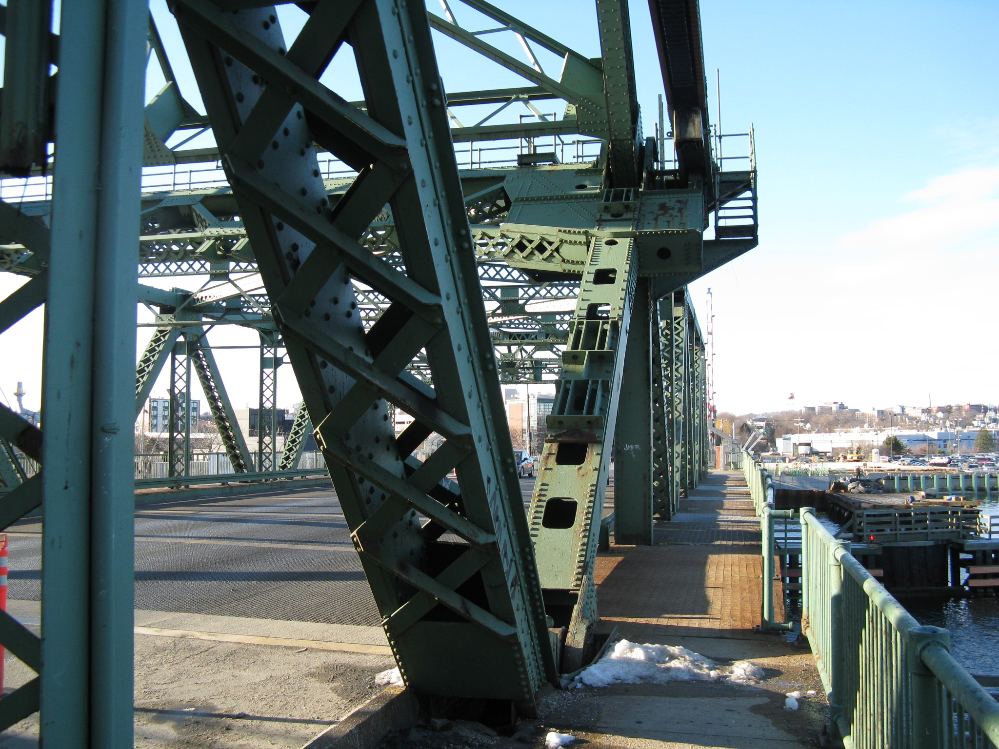 The old Chelsea Street Bridge, in Chelsea, Massachusetts, was a single-leaf bascule-type drawbridge built in 1936–37. This bridge was replaced in 2011–12 by a new vertical-lift-type drawbridge.